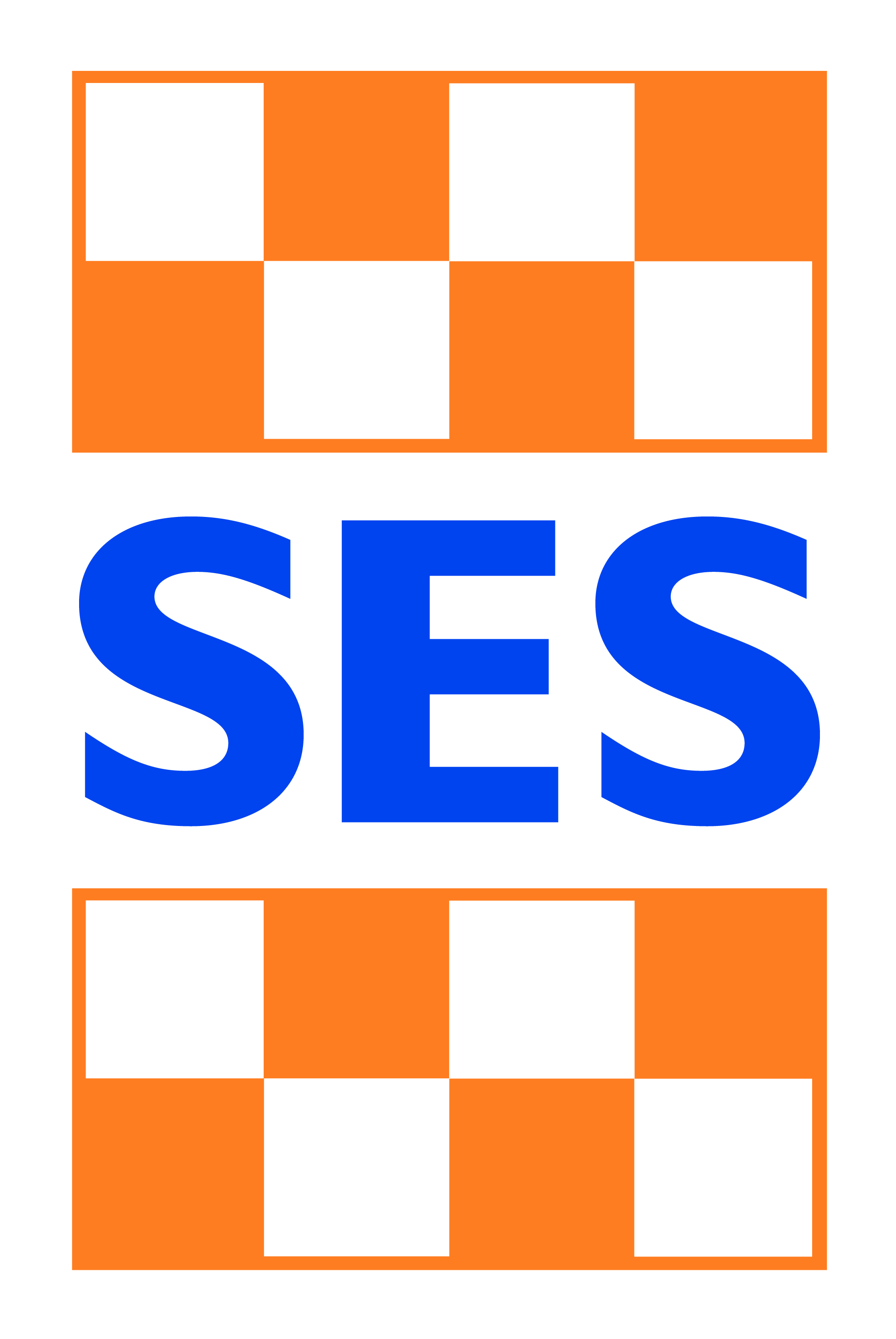 Victoria State Emergency Service corporate logo with exclusion